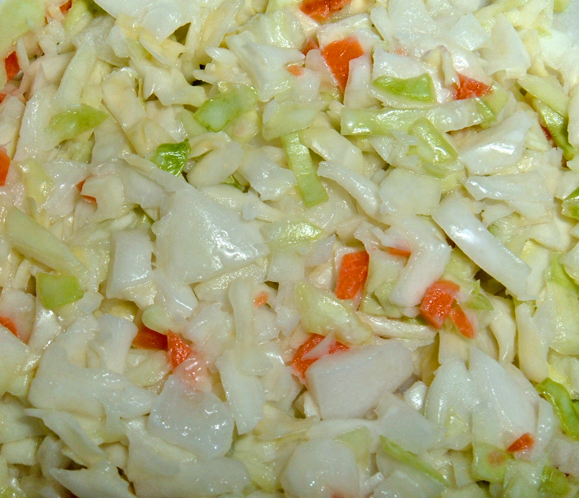 KFC coleslaw